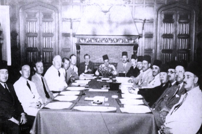 ANTONIADIS Palace Second site of Anglo-Egyptian negotiations on the Anglo Egyptian treaty of 1936 (August 1936).